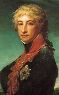 Portrait of the Prince Louis Ferdinand of Prussia (1772-1806)